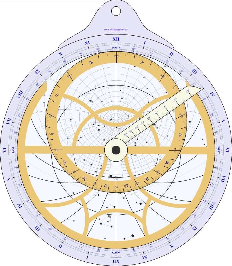 Planispheric astrolabe designed for the latitude of Varese (Italy), drawn by the Shadows Pro shareware.